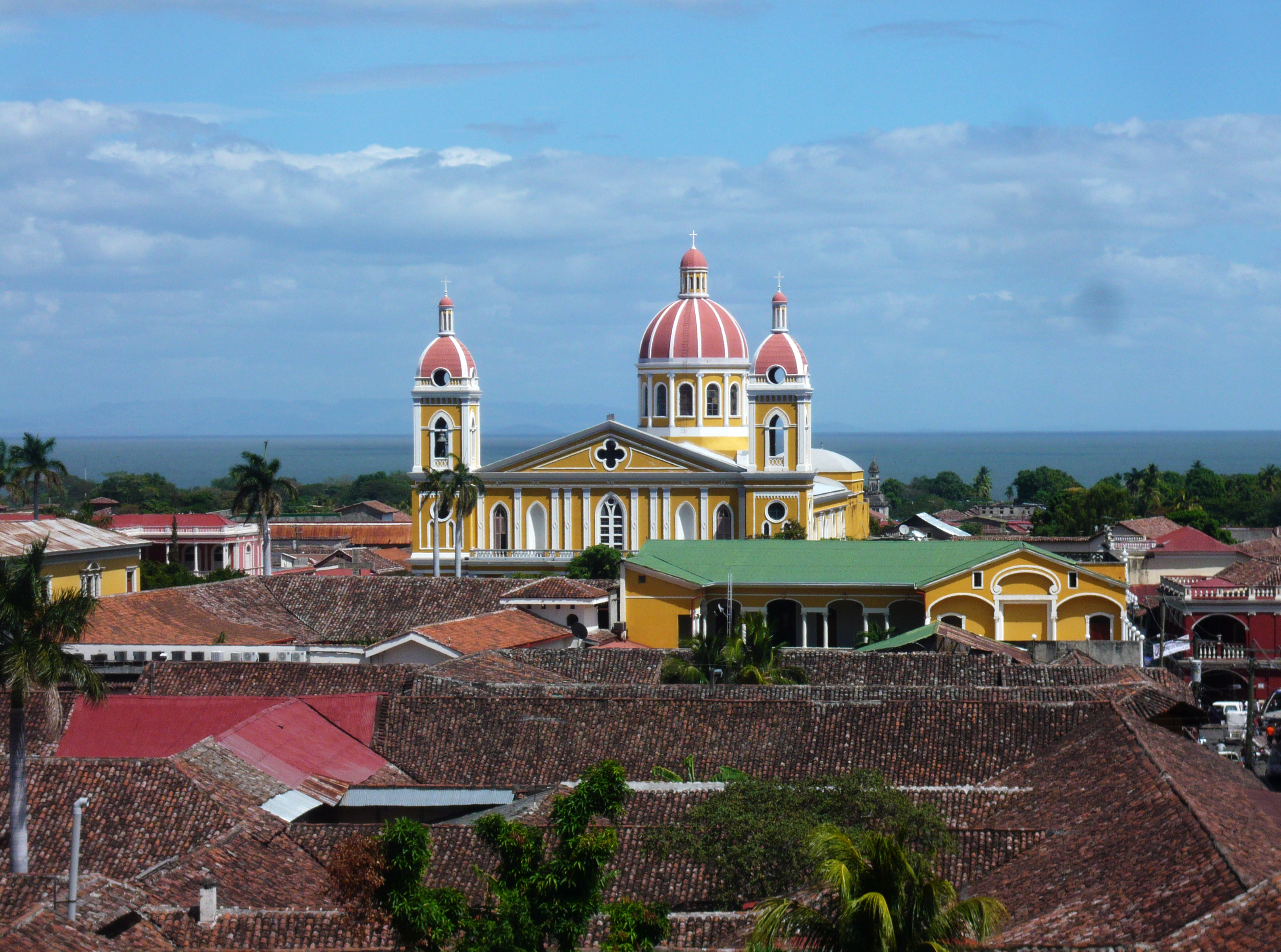 Granada, Nicaragua, seen from Iglesia de la Merced